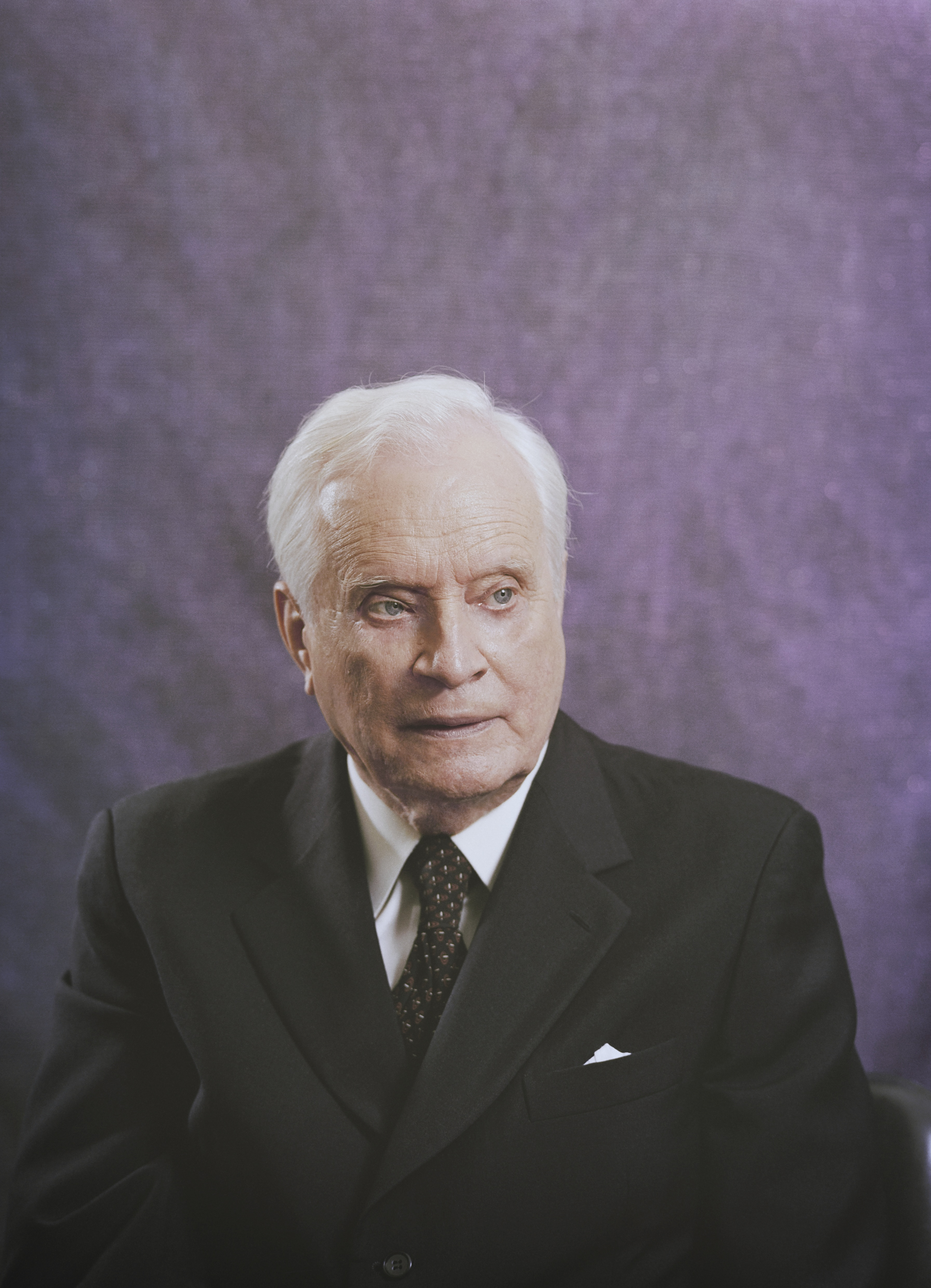 Photograph of the Finnish mathematician Rolf Nevanlinna (1895–1980).